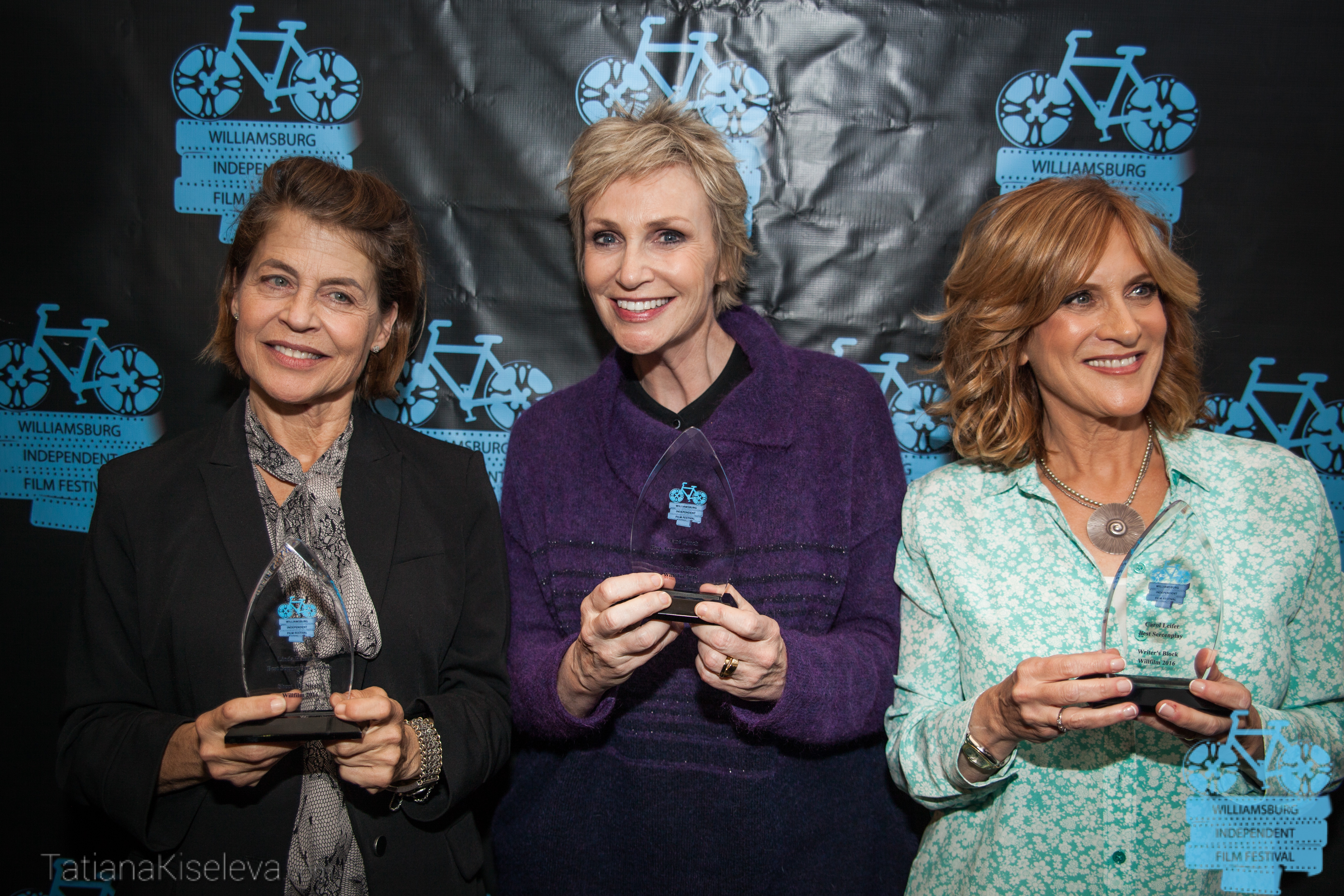 Three Stars at Festival Actresses Linda Hamilton Jane Lynch and Carol Leifer accepting their Willfilm Awards -11.17. 2016 at the Cinema at the WYTHE Hotel